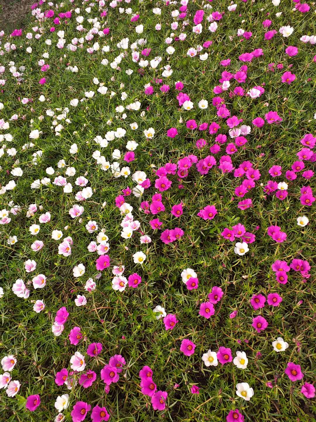 Portulaca grandiflora. 2018 Taichung World Flora Exposition, Taiwan.